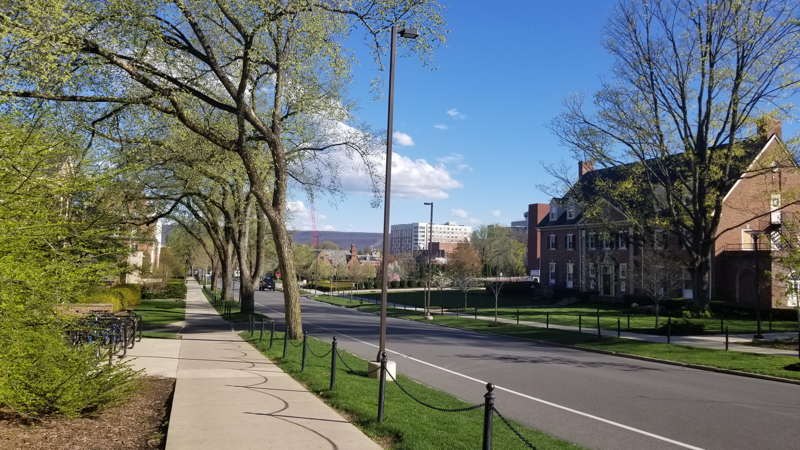 Image of University Park facing downtown State College taken near the Waring Commons on Burrowes Rd.